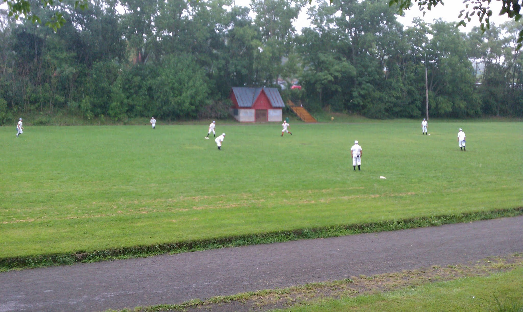 Teams from Greenfield Village playing a game of vintage base ball at Frog Island Park, during the 2011 Ypsilanti Heritage Festival.